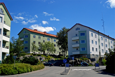 Doktor Allards gata in Guldheden in Göteborg, Sweden